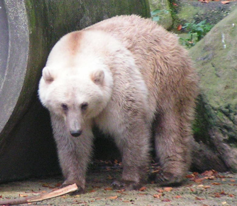 Pizzlies in Osnabrück